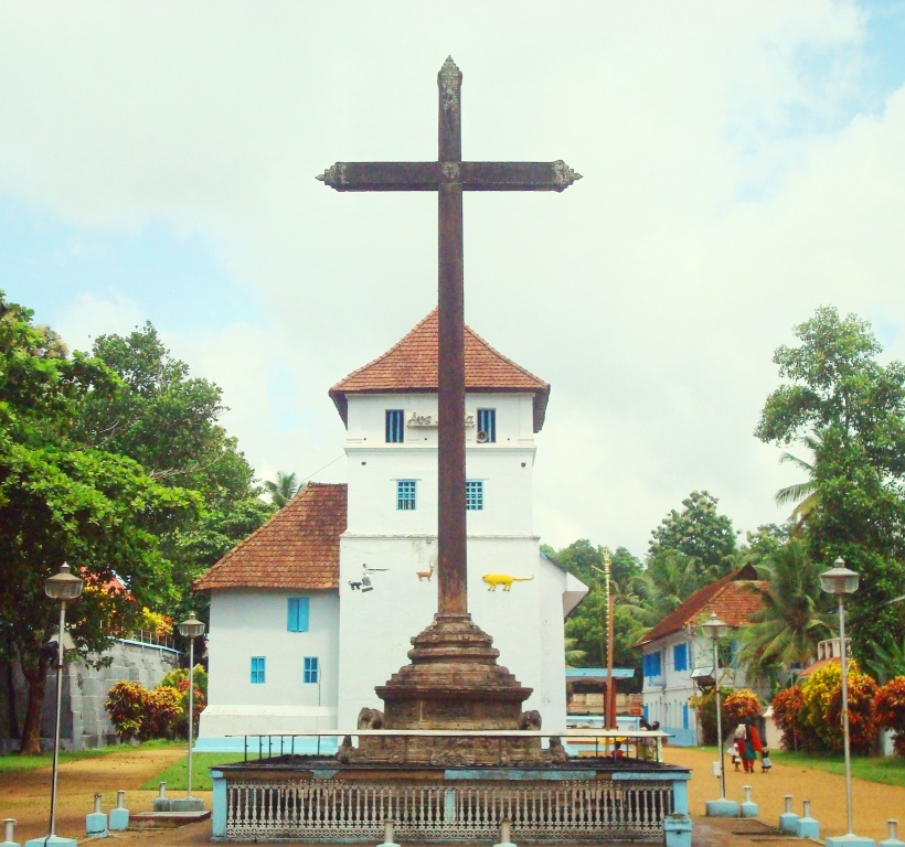 Kaduthuruthy Granite Cross